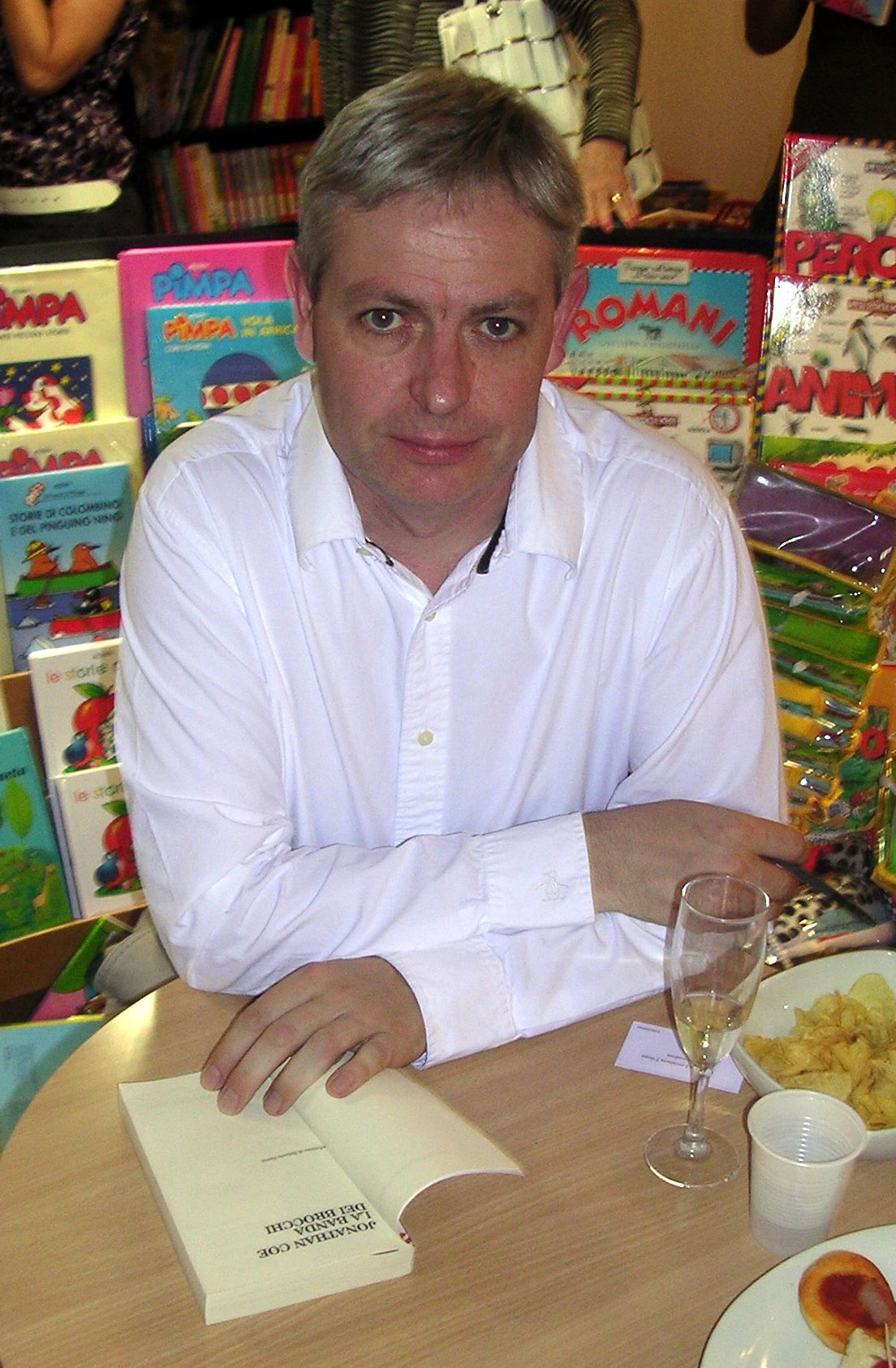 Jonathan Coe signing autograph at laFeltrinelli bookshop, Rome